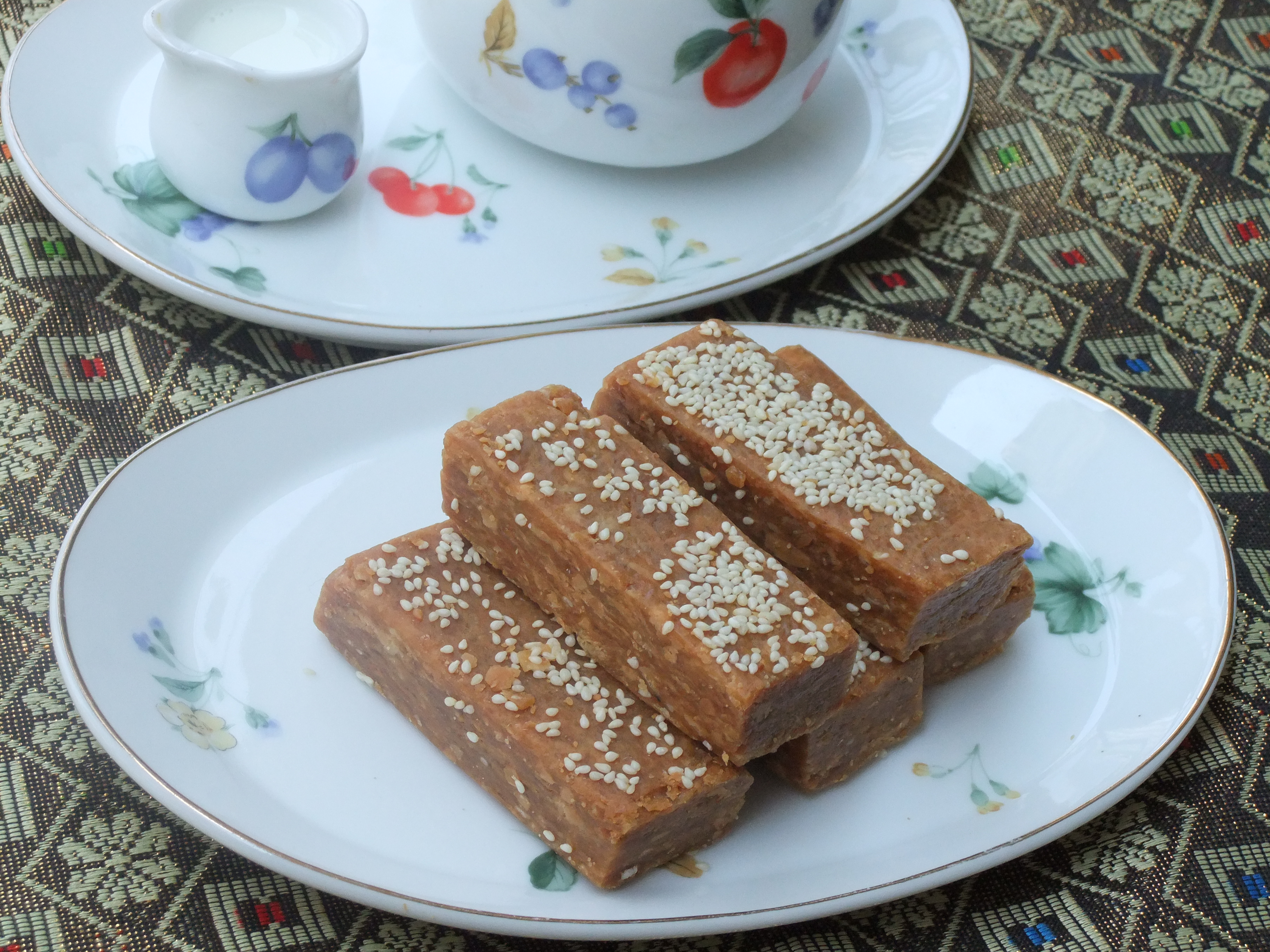 Teng-teng peanuts candy from Medan